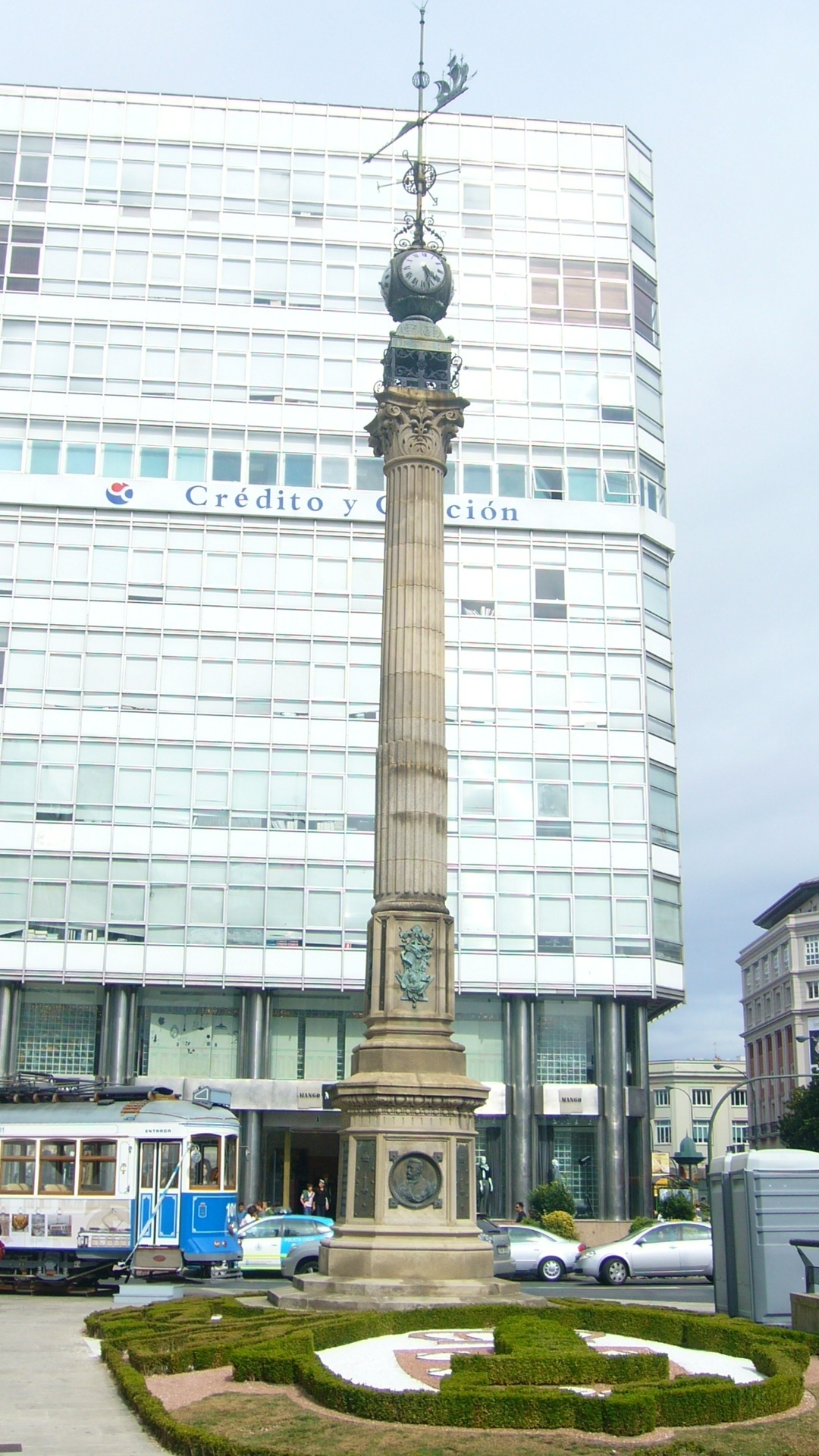 Obelisk of Corunna